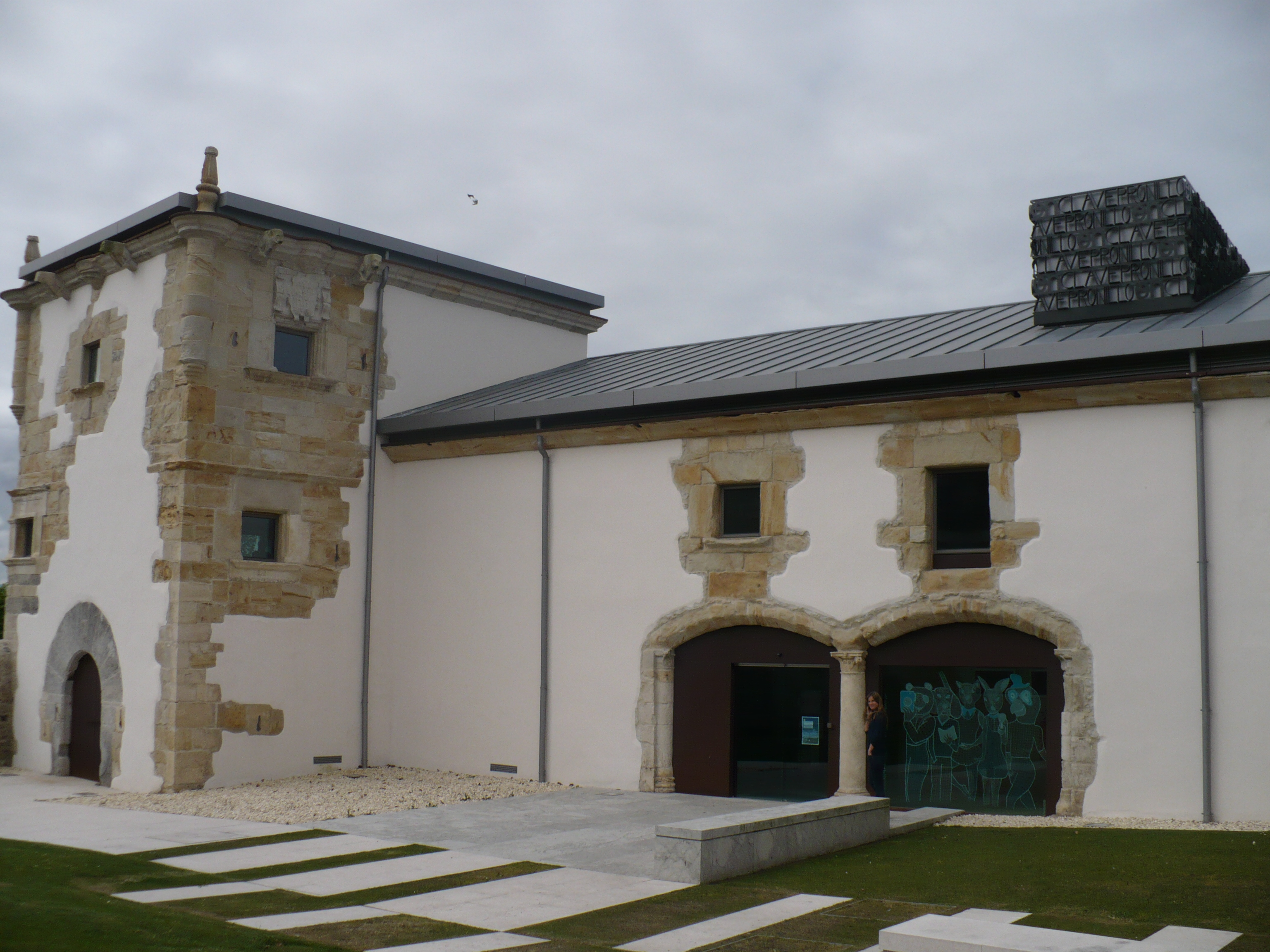 The Palace of Riva-Herrera in Santandé after its destruction disguised as reconstruction by the Santander City Council